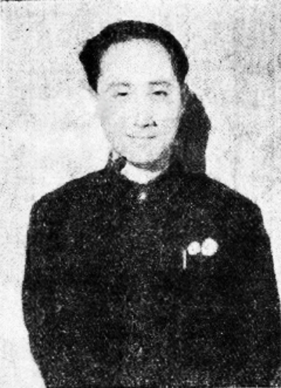 Shang Chuandao